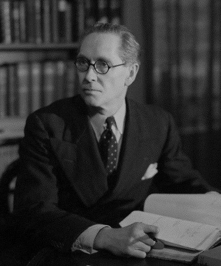 Philip Noel-Baker, statesman